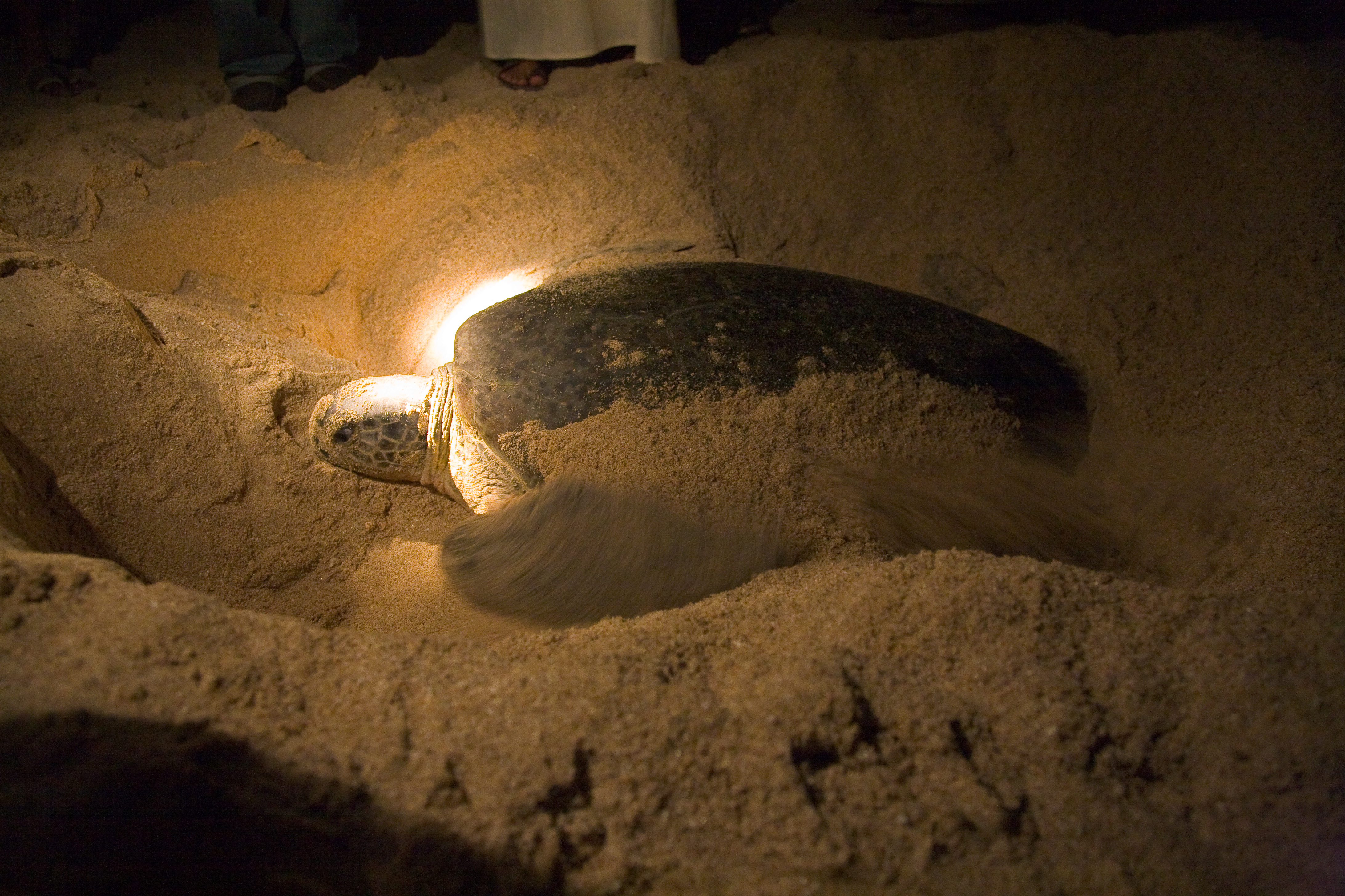 Turtle nesting at Ras al-Jinz, Oman